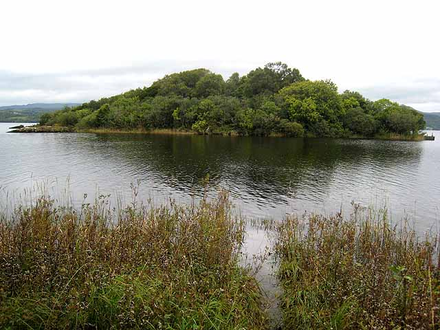 The Lake Isle of Inishfree Set in Lough Gill, the much-hyped subject of a poem by WB Yeats. It is difficult to imagine scraping a living on the unpromising terrain of this island.